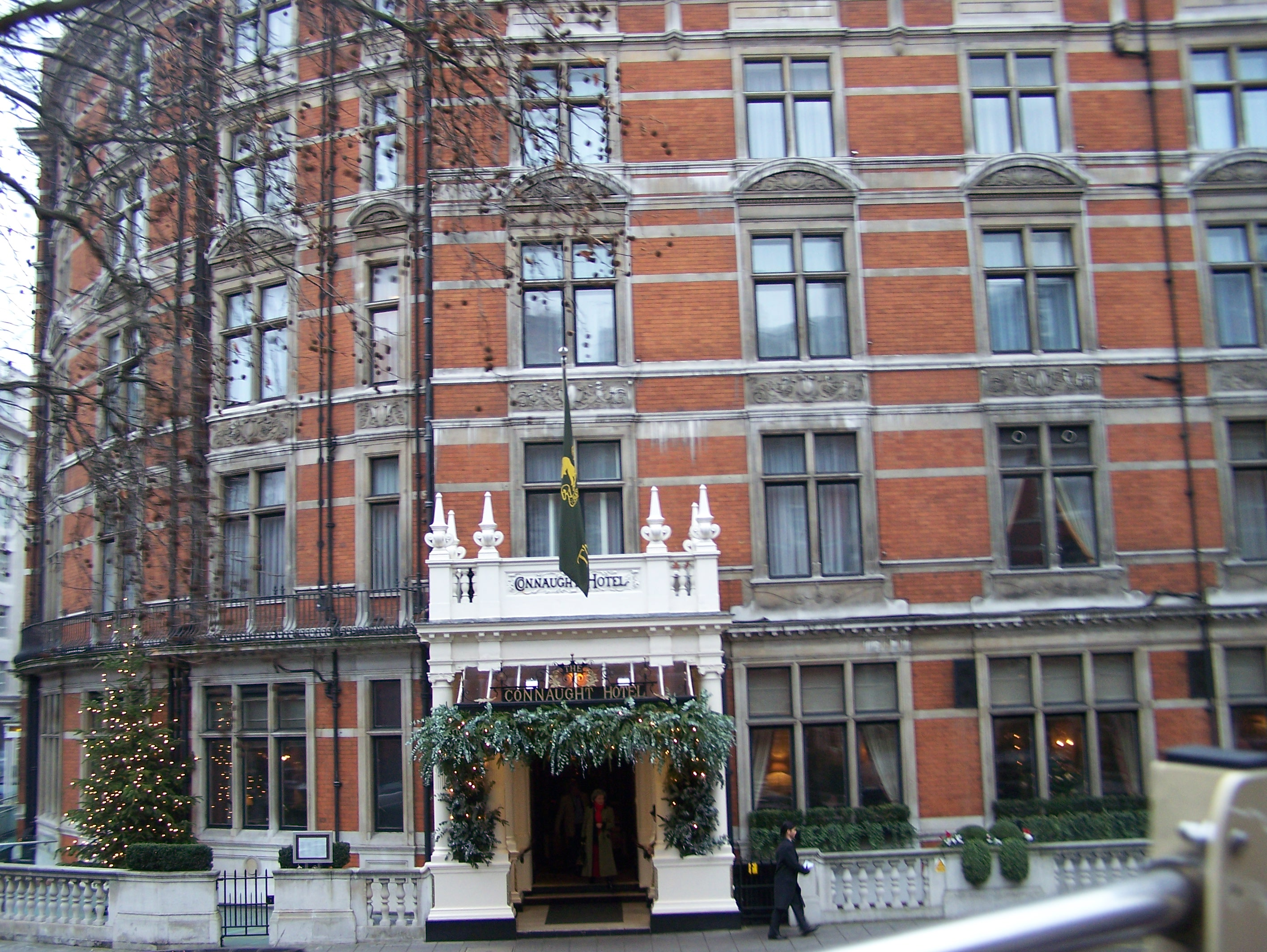 The Connaught One of the oldest 5 star hotels in London. The oldest is the Savoy. This was built sometime in the late 1800s